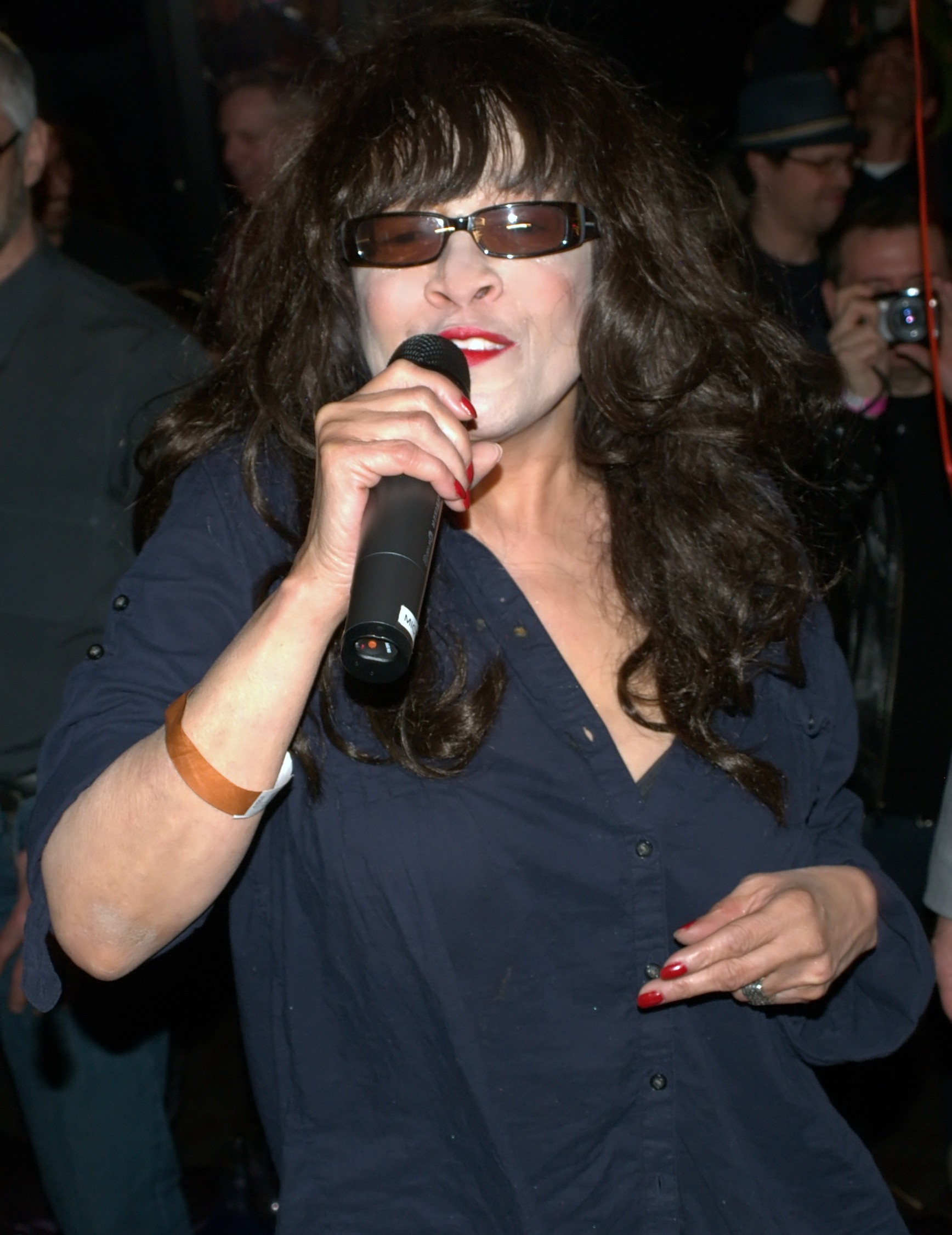 Ronnie Spector at the 25th Anniversary party of Michael Musto writing for The Village Voice